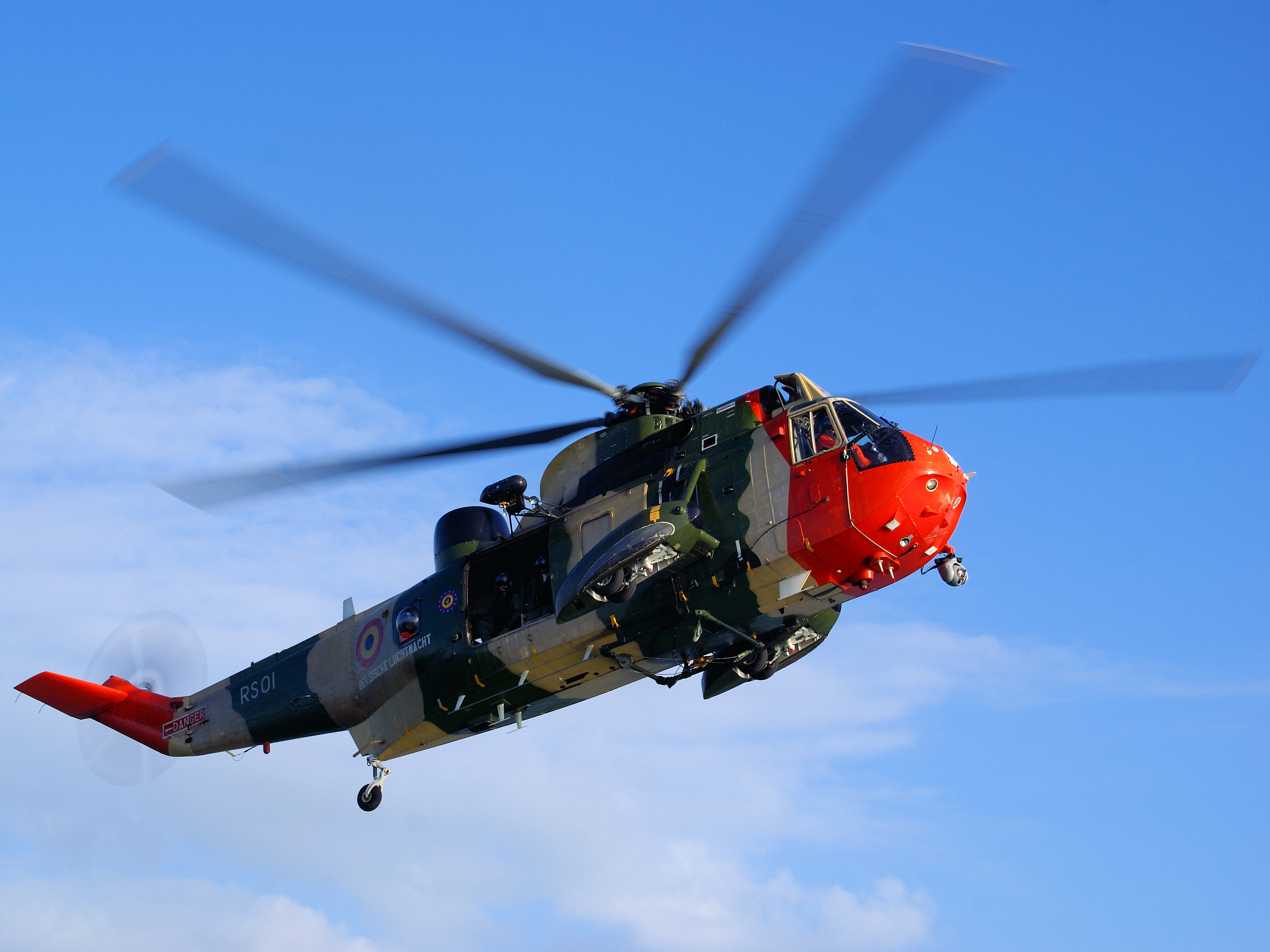 Belgian Air Force Sea King RS01 helicopter on a practice mission. Photograph taken at sea from the RV Belgica.